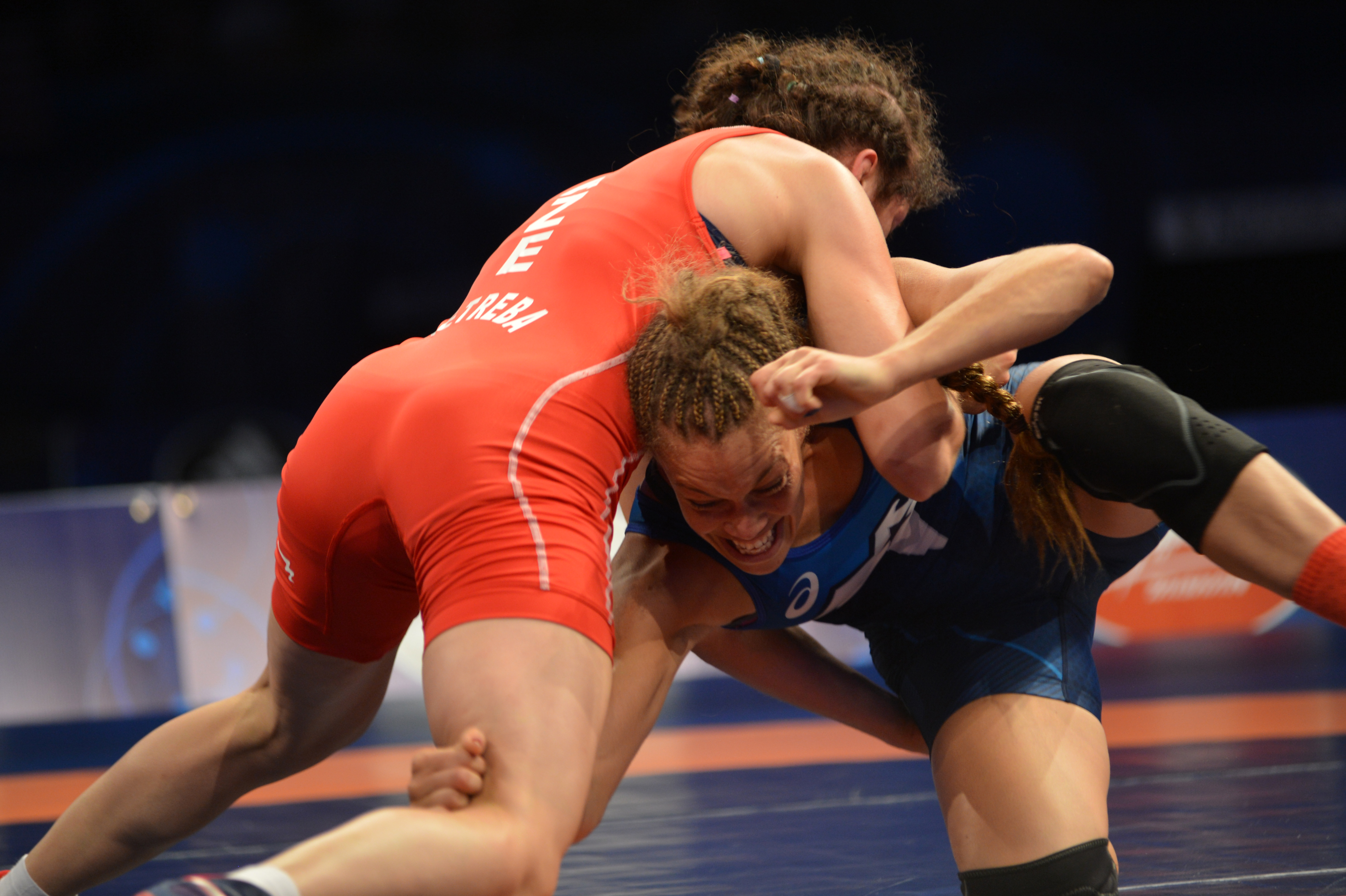 Capt. Leigh Jaynes-Provisor of the U.S. Army World Class Athlete Program defeats Irina Netreba of Azerbaijan 4-4 on critieria for the bronze medal in the women's freestyle 60-kilogram division at the 2015 World Wrestling Championships on Friday night at the Orleans Arena in Las Vegas. Army photo by Tim Hipps, IMCOM Public Affairs #WCAP #RoadToRio #USAWrestling #vegasworlds2015 #vegasworlds